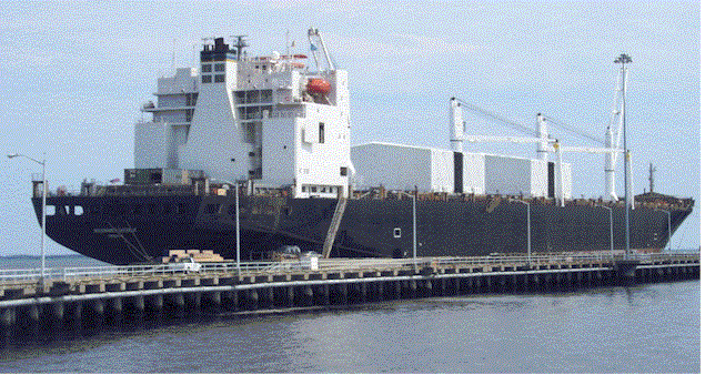 The MV SSG Edward A. Carter, Jr., awaits loading at MOTSU. IMO Number: 8212673 Callsign: WDDU Length: 290 m Beam: 32 m